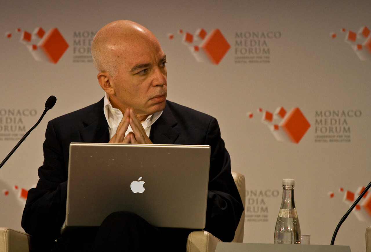 Journalist Michael Wolff at the 2008 Monaco Media Forum